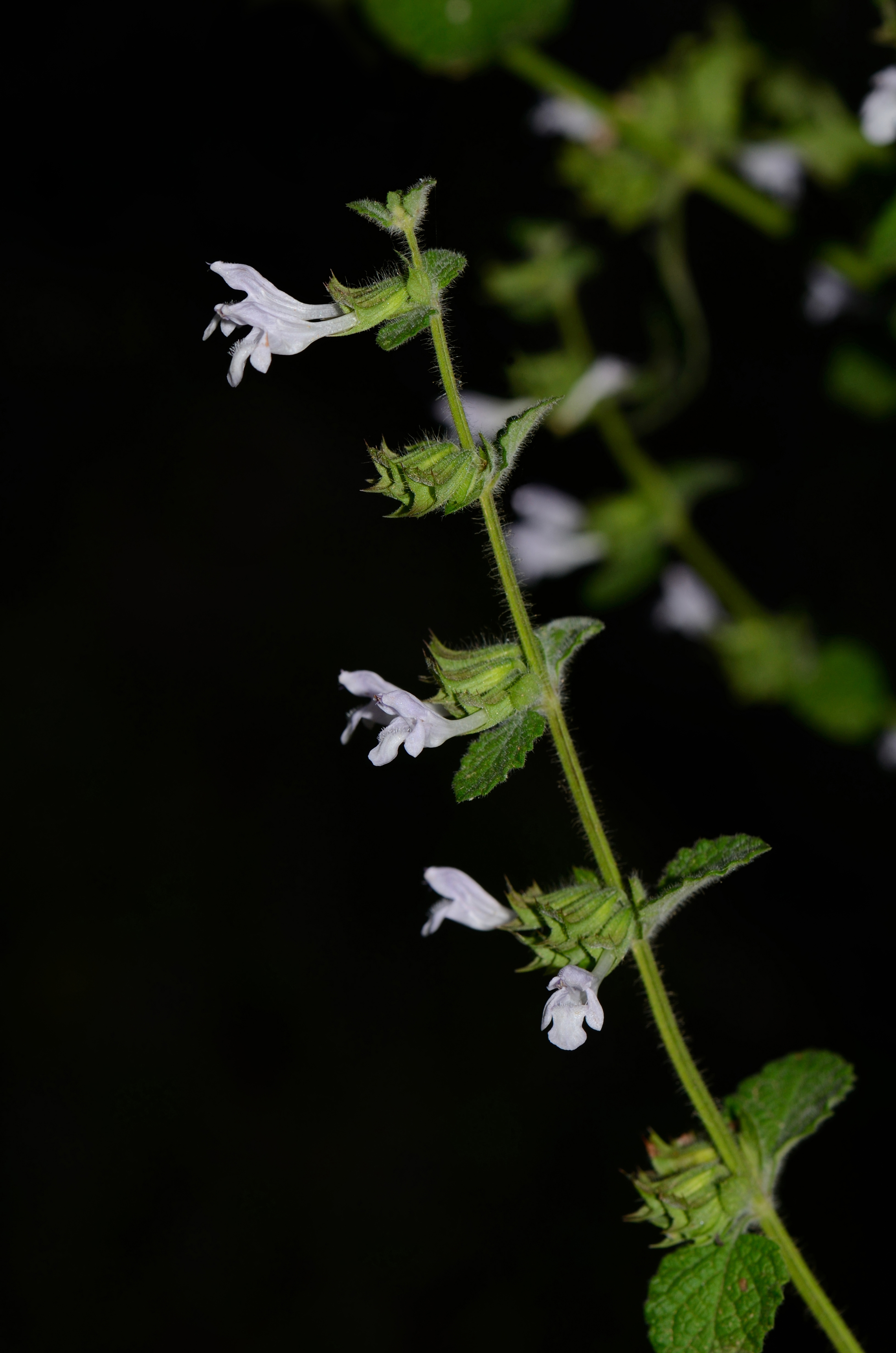 Melissa officinalis L., Nahal Hazuri, Mount Hermon, Golan Heights, June 22, 2012.